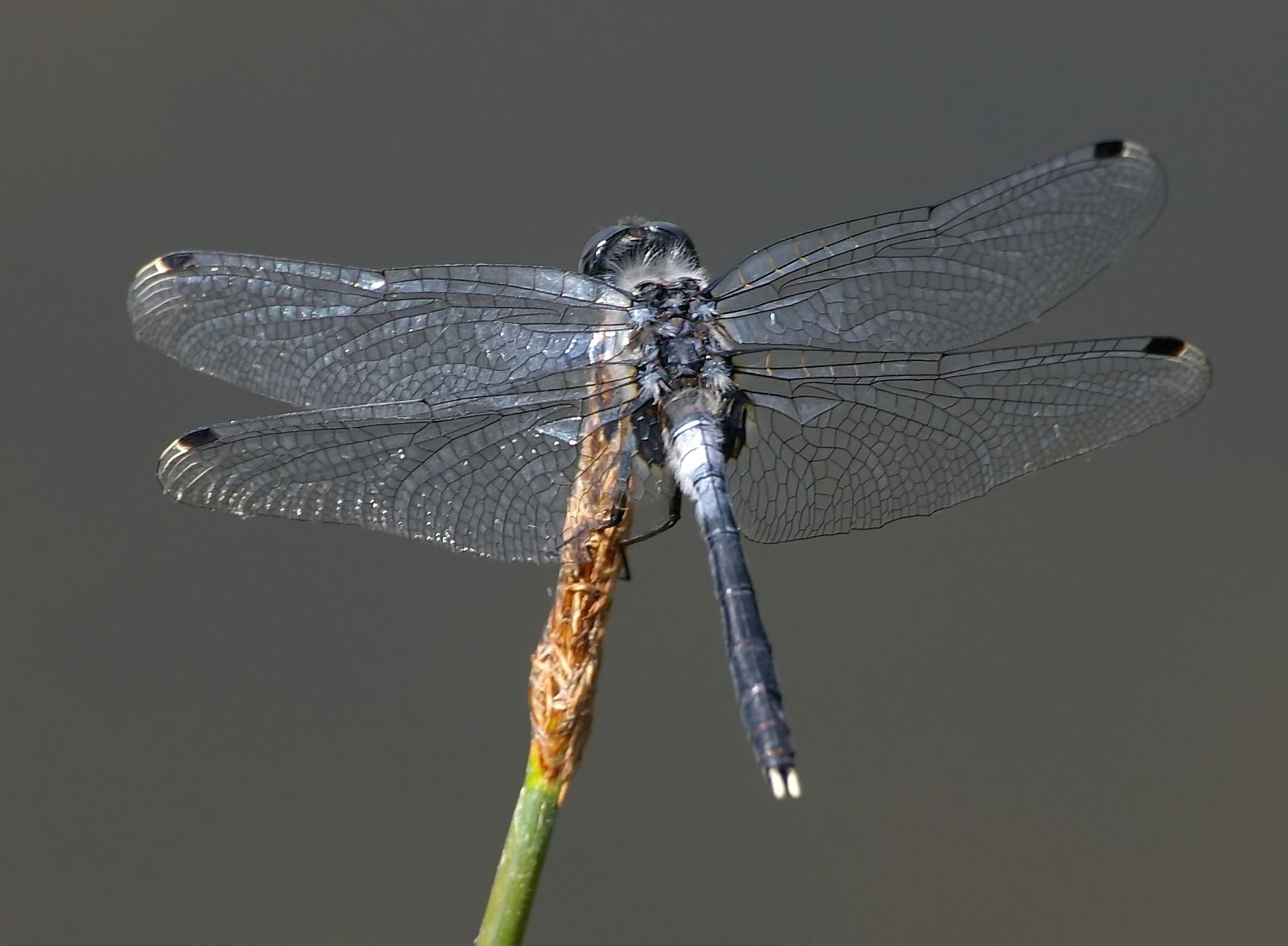 Elder male specimen of the dragonfly Eastern White-faced Darter, Leucorrhinia albifrons.